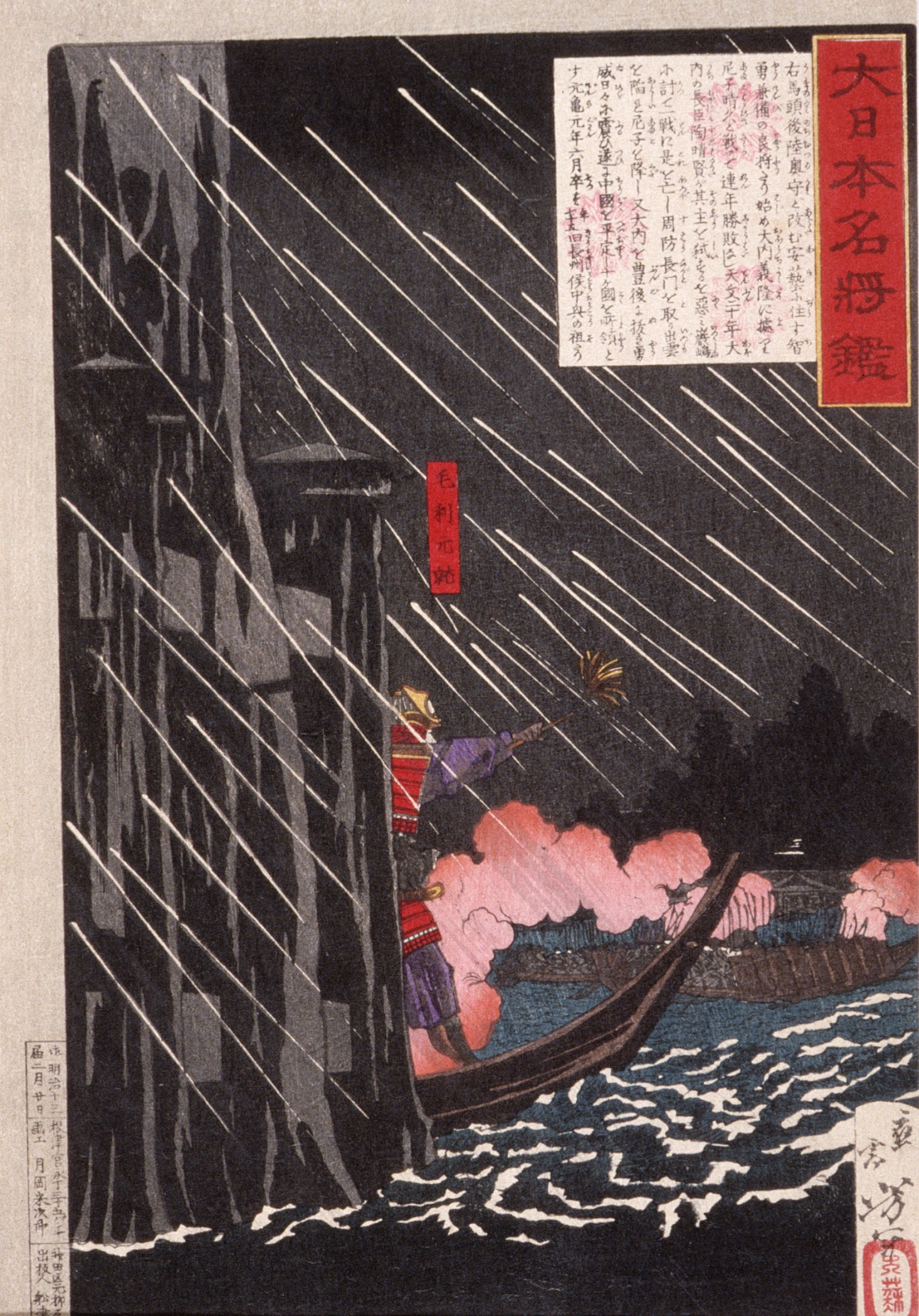 Japan, 2/1880 Series: A Mirror of Great Warriors of Japan Prints; woodcuts Color woodblock print Herbert R. Cole Collection (M.84.31.247) Japanese Art